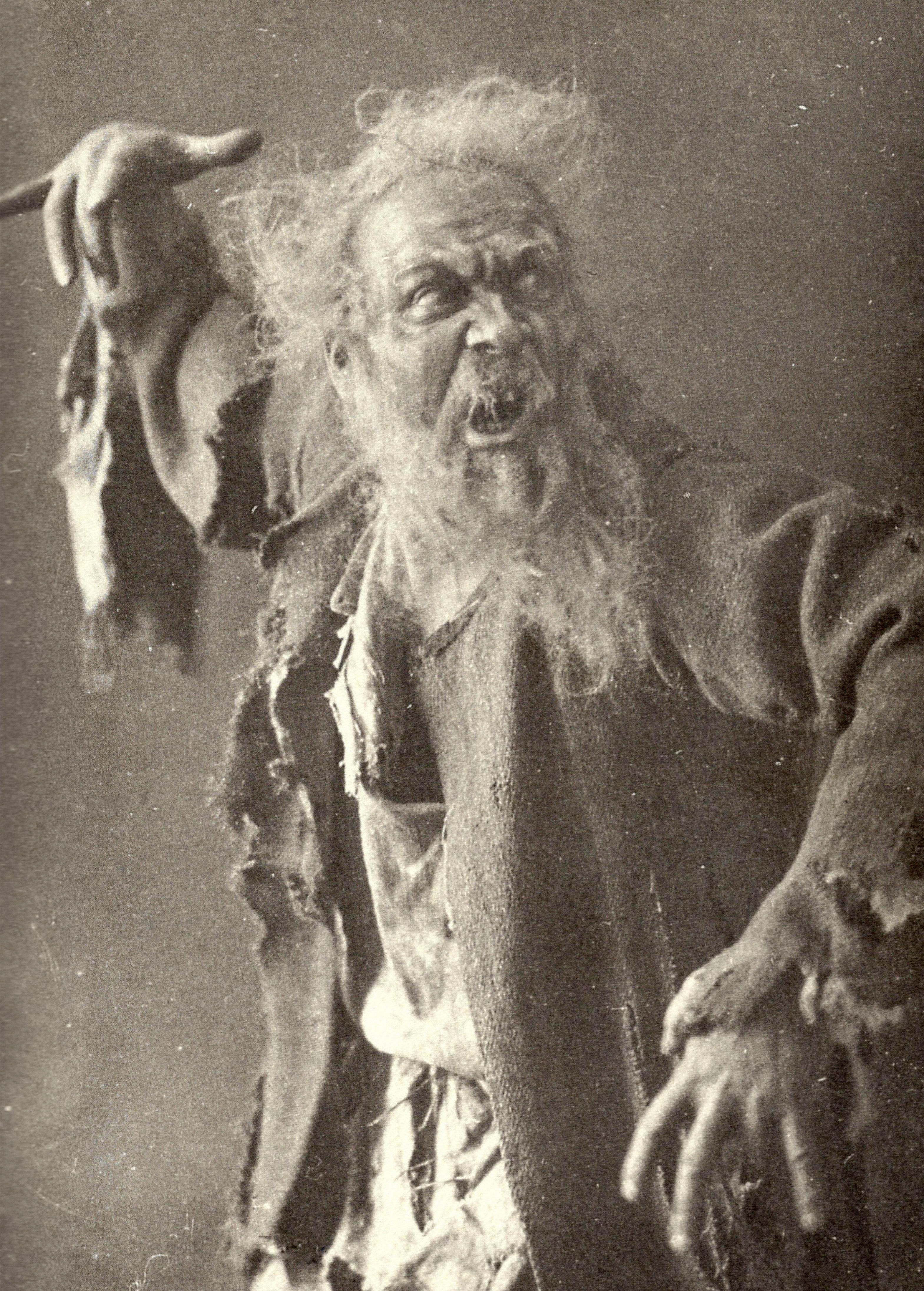 Feodor Chaliapin as Miller in Mermaid by Alexander Dargomyzhsky.